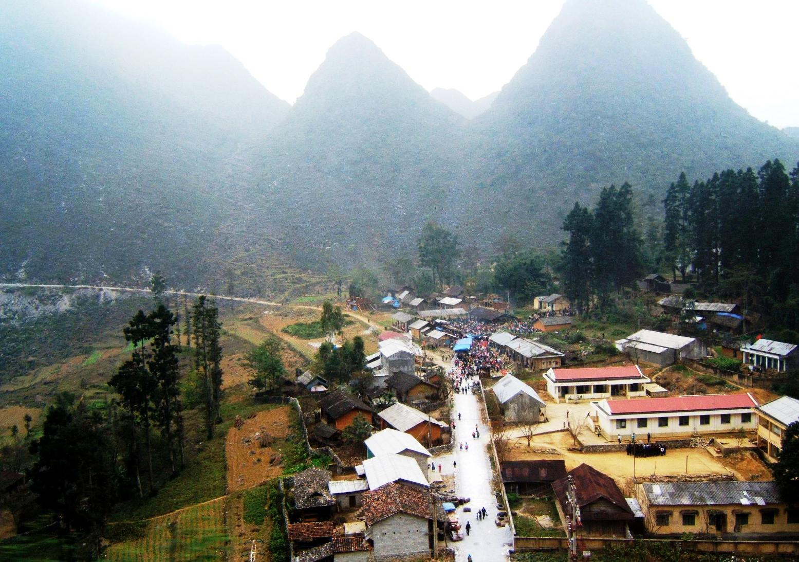 At the Center of Xa Phin ward, Ha Giang province, Vietnam, 2005. On the right is the Tortoise Hill, where The Palace of the Hmong Lord Vuong resides.